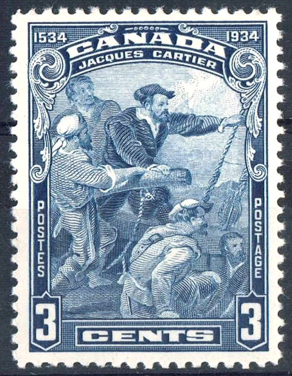 Canada Postage stamp, issue of 1934, 3¢. On the 1st July, 1934, a special 3-cent stamp commemorated the four-hundredth anniversary of the discovery of Canada by the French navigator, Jacques Cartier. (From: Patrick, Douglas and Mary Patrick. Canada's Postage Stamps. Toronto, McClelland and Stewart Limited, 1964, p. 68.) [1] Designed by the British American Bank Note Company, Design adapted from company vignette (ca. 1870) previously used on bank notes and certificates. [2]